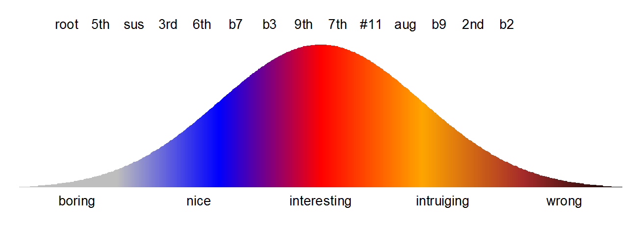 a colored bell curve intended to illustrate the quality of musical intervals from root (boring) to minor 2nd 'wrong'.